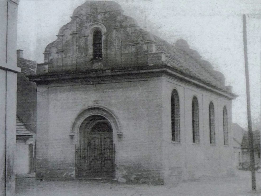 Synagogue in the town of Kostelec nad Labem, Mělník District, Central Bohemian Region, Czech Republic, demolished around 1952. Copy of a photograph from the local Jewish cemetery.